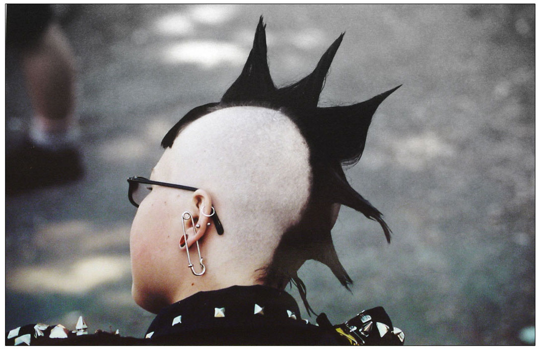 (Original text: "Just a girl with a Mohawk")